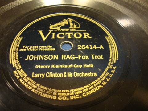 78 shellack Larry Clinton & Orchestra